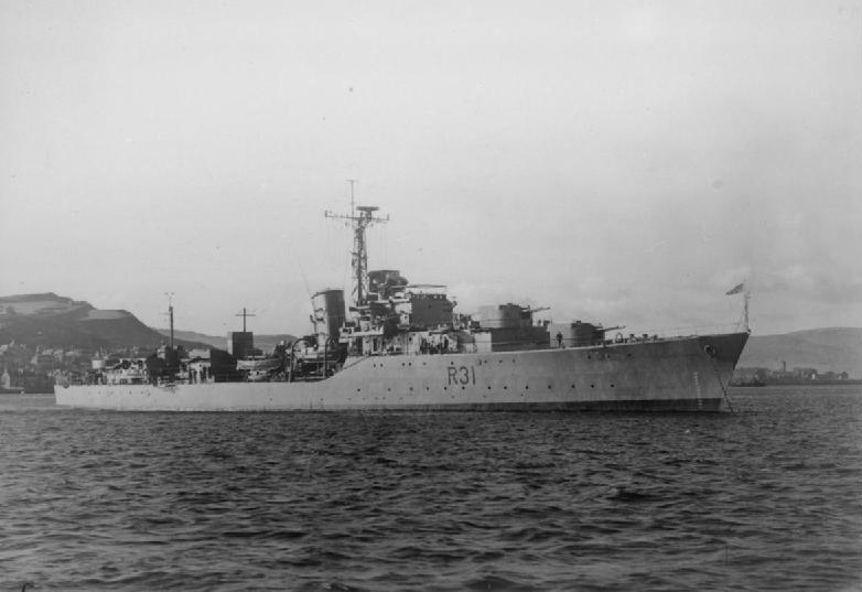 British destroyer HMS VIGO at anchor in the Clyde.